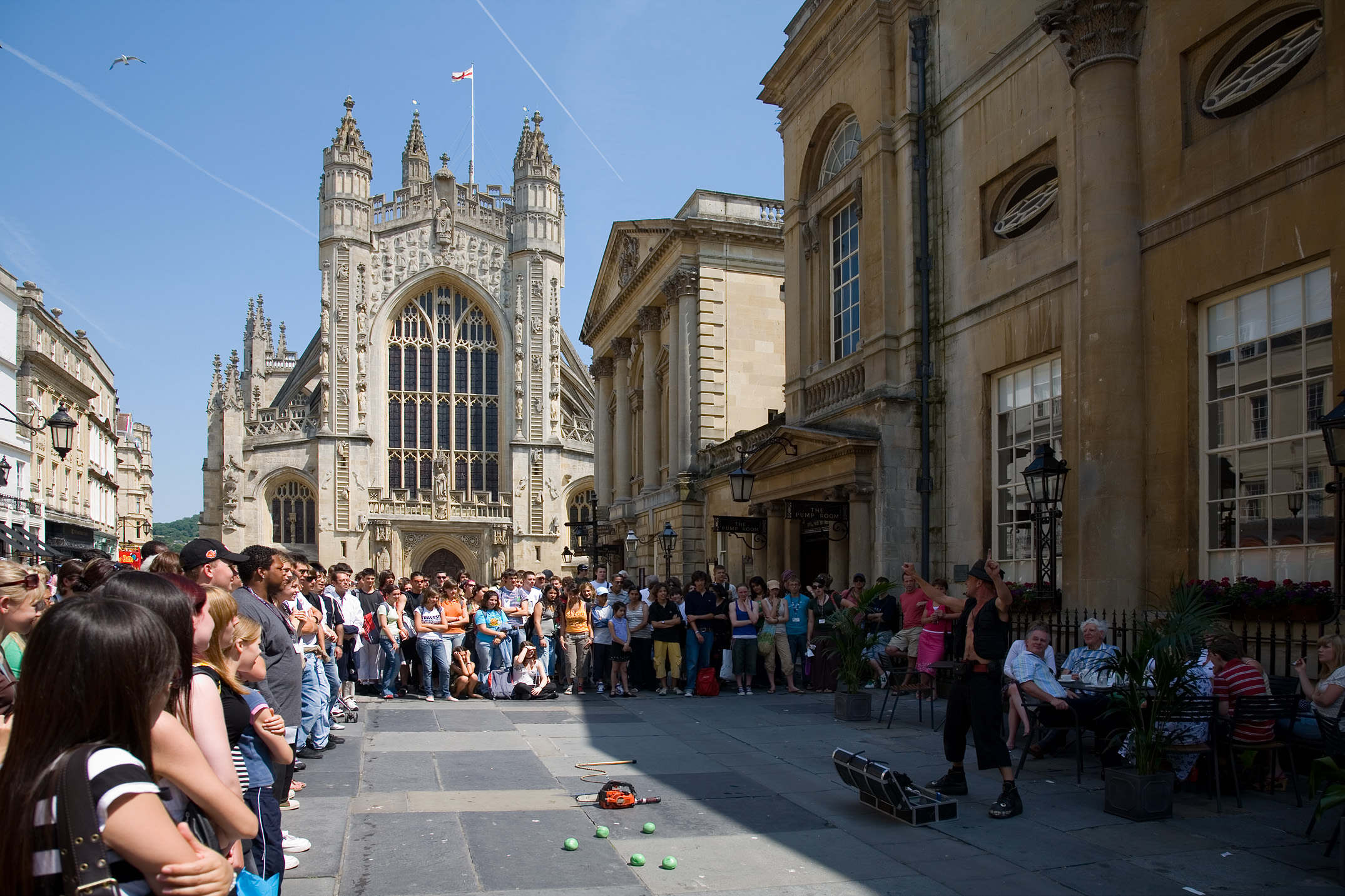 A performer in front of Bath Abbey (center) and Roman Bath House (right)